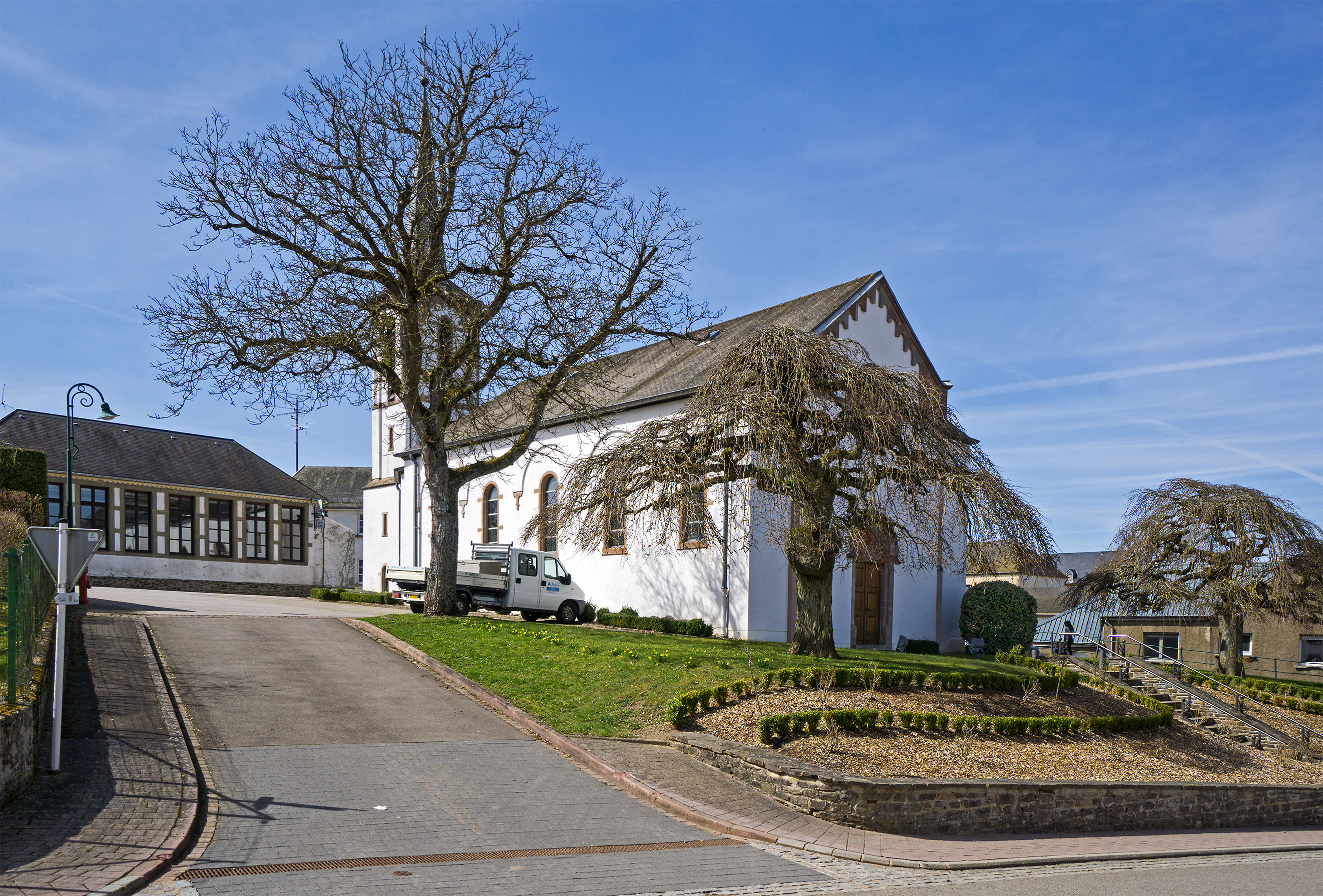 Church of Baschleiden